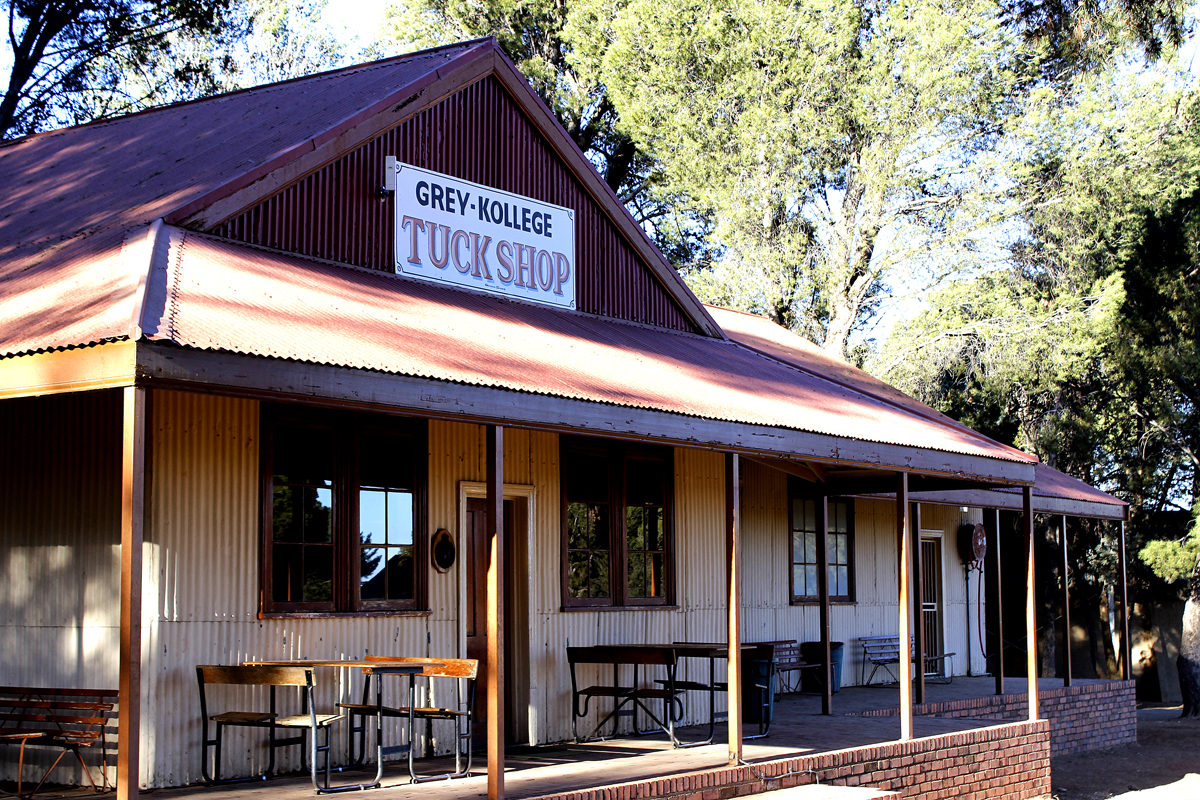 This media shows a South African Protected Site with SAHRA file reference 9/2/302/0059.